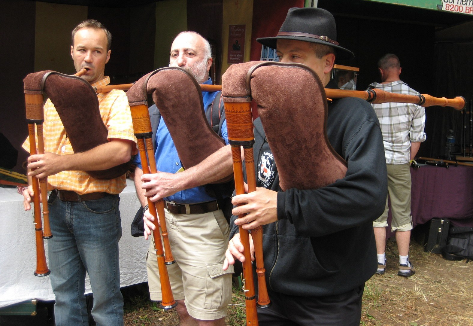 Cornemuses du Centre, bagpipes from Central France, Length of the chanter: 26 pouce, in A/D, Instrument maker: Bernard Blanc, with "Sautivet" decorations